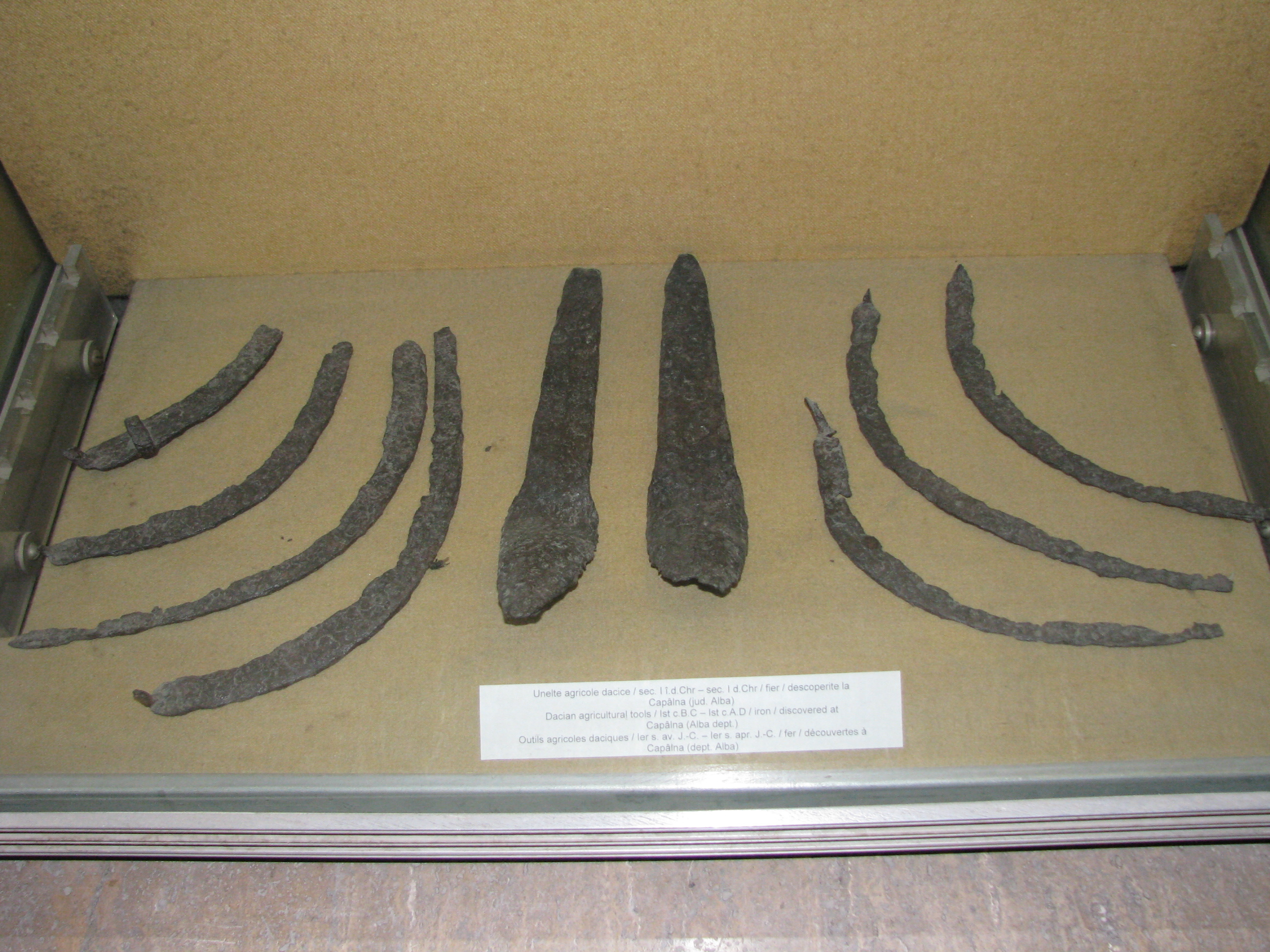 Alba Iulia National Museum of the Union 2011